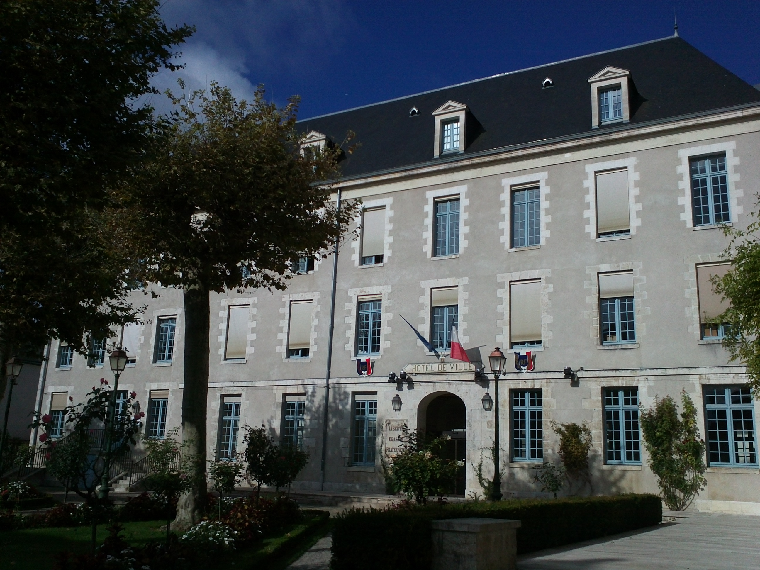 Montargis, Loiret, France. The town Hall (mairie). Built in 1484, destroyed by fire in 1525, rebuilt, it becomes then a school run by Barnabites until the Revolution, then a state school until well into the XXth century. It has been the mairie since 1988.